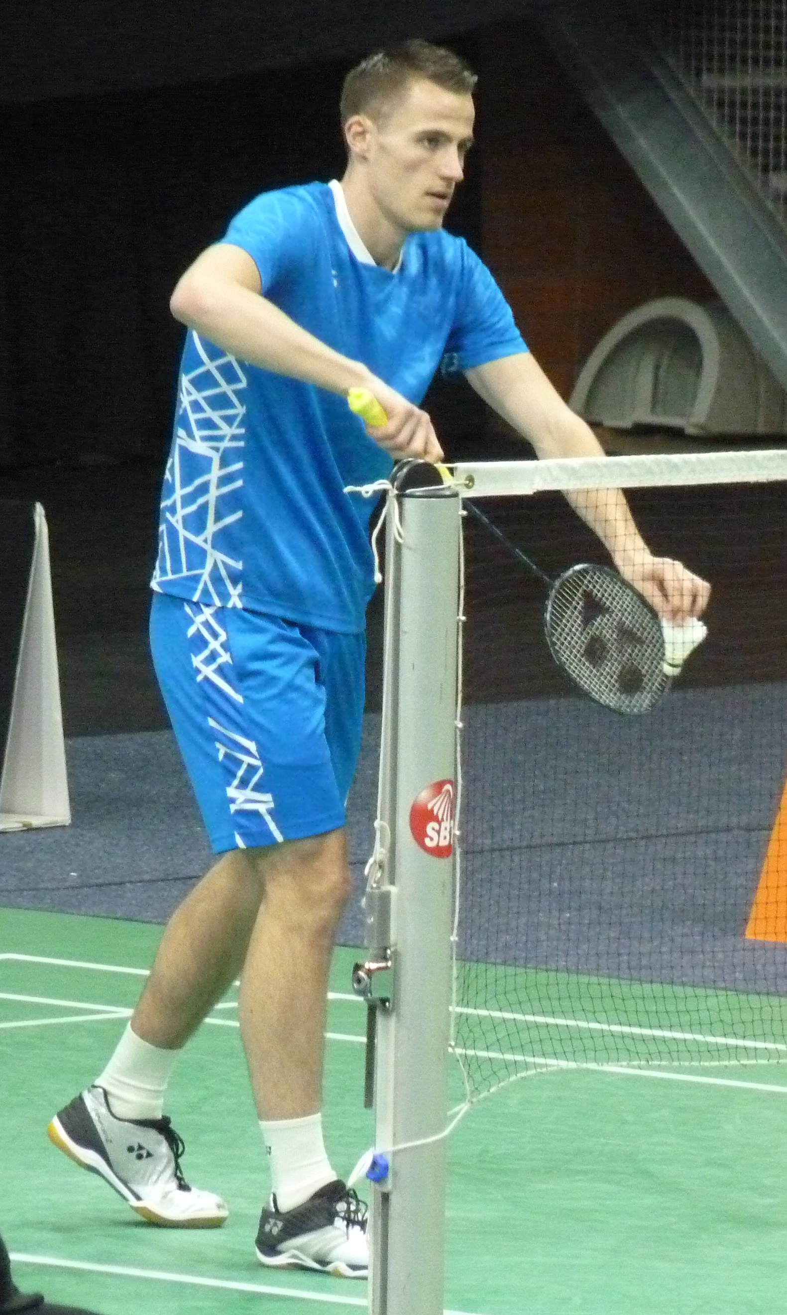 Mark Caljouw (the Netherlands)